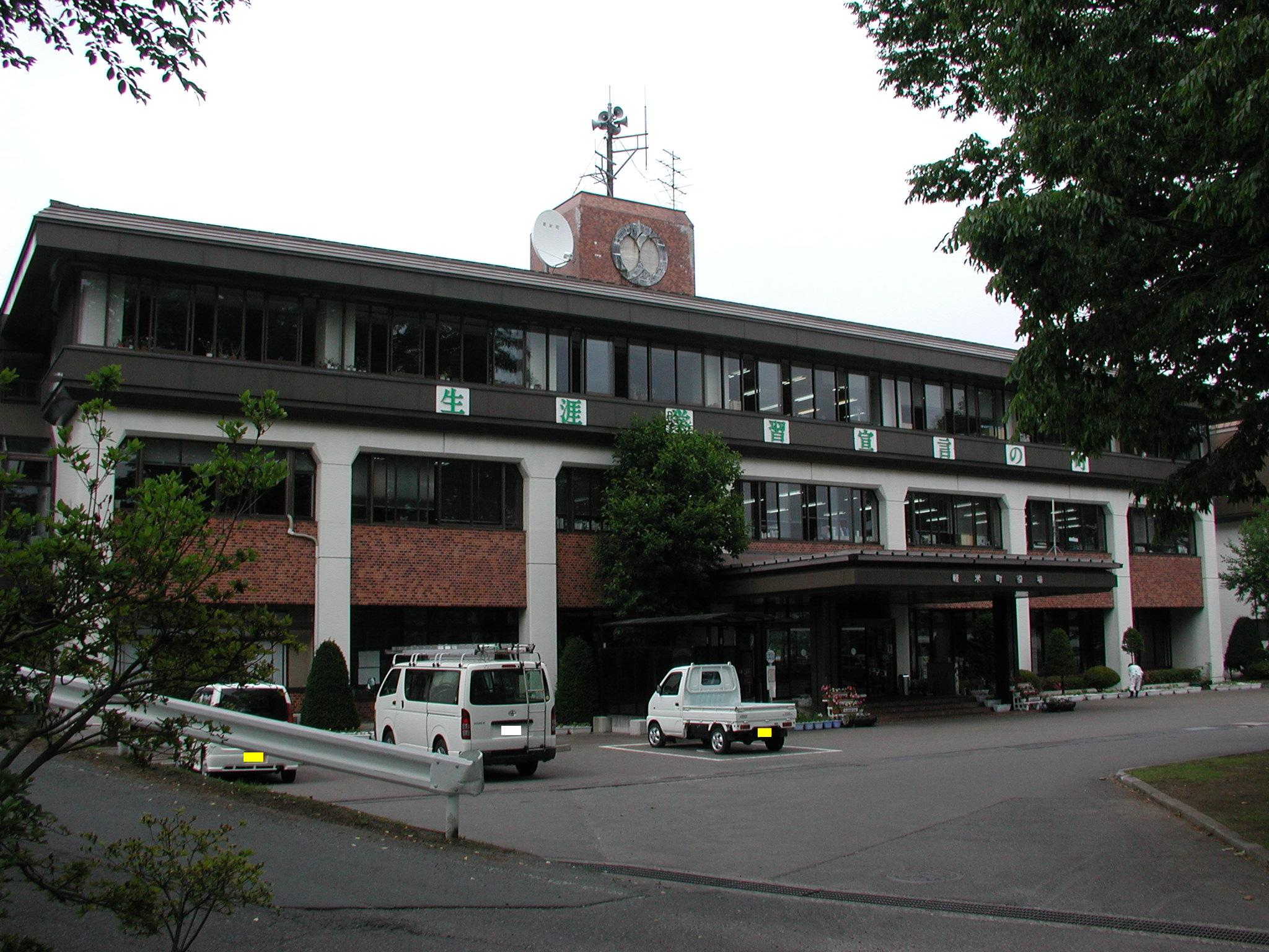 Karumai Town Office Iwate Japan